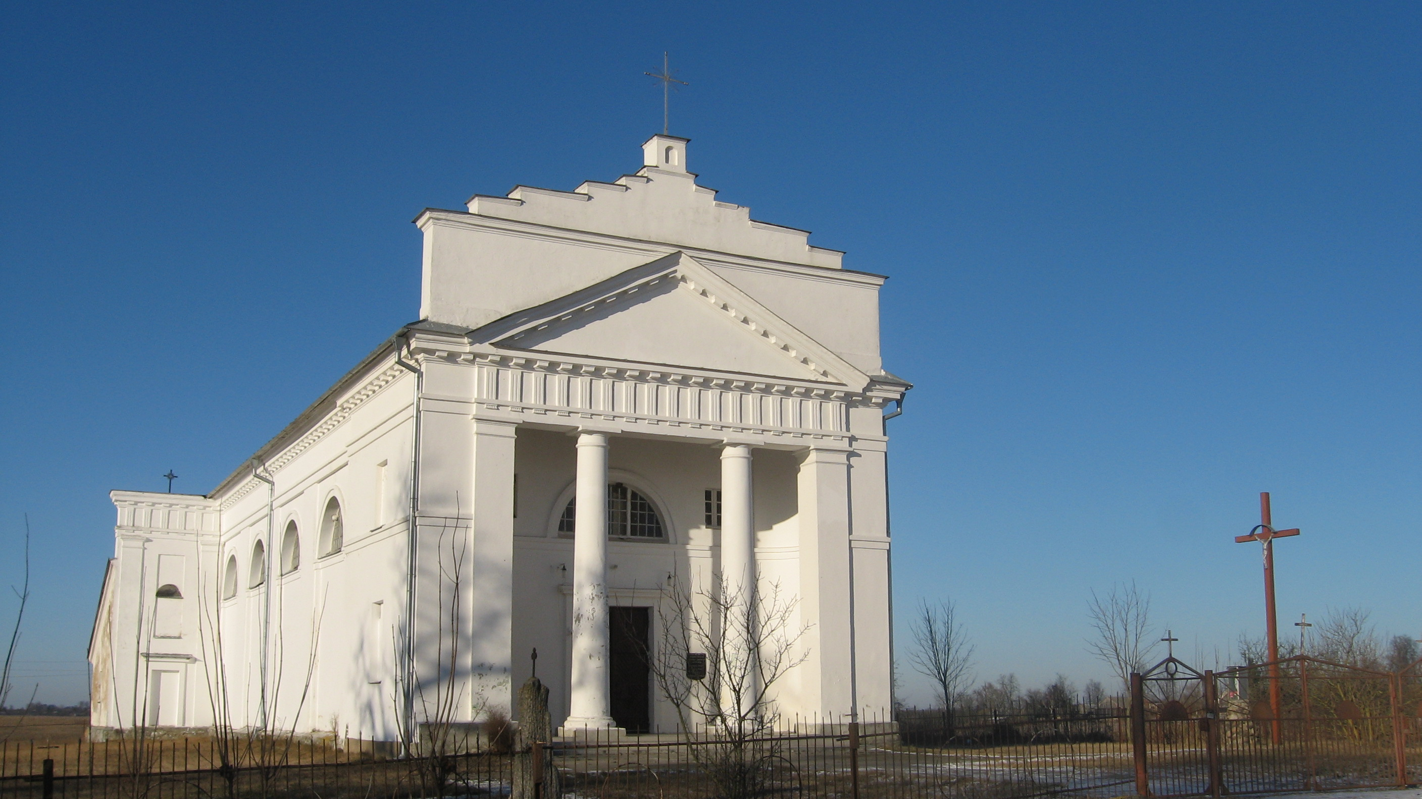 Church of Saint George in Swoyatychy, Belarus